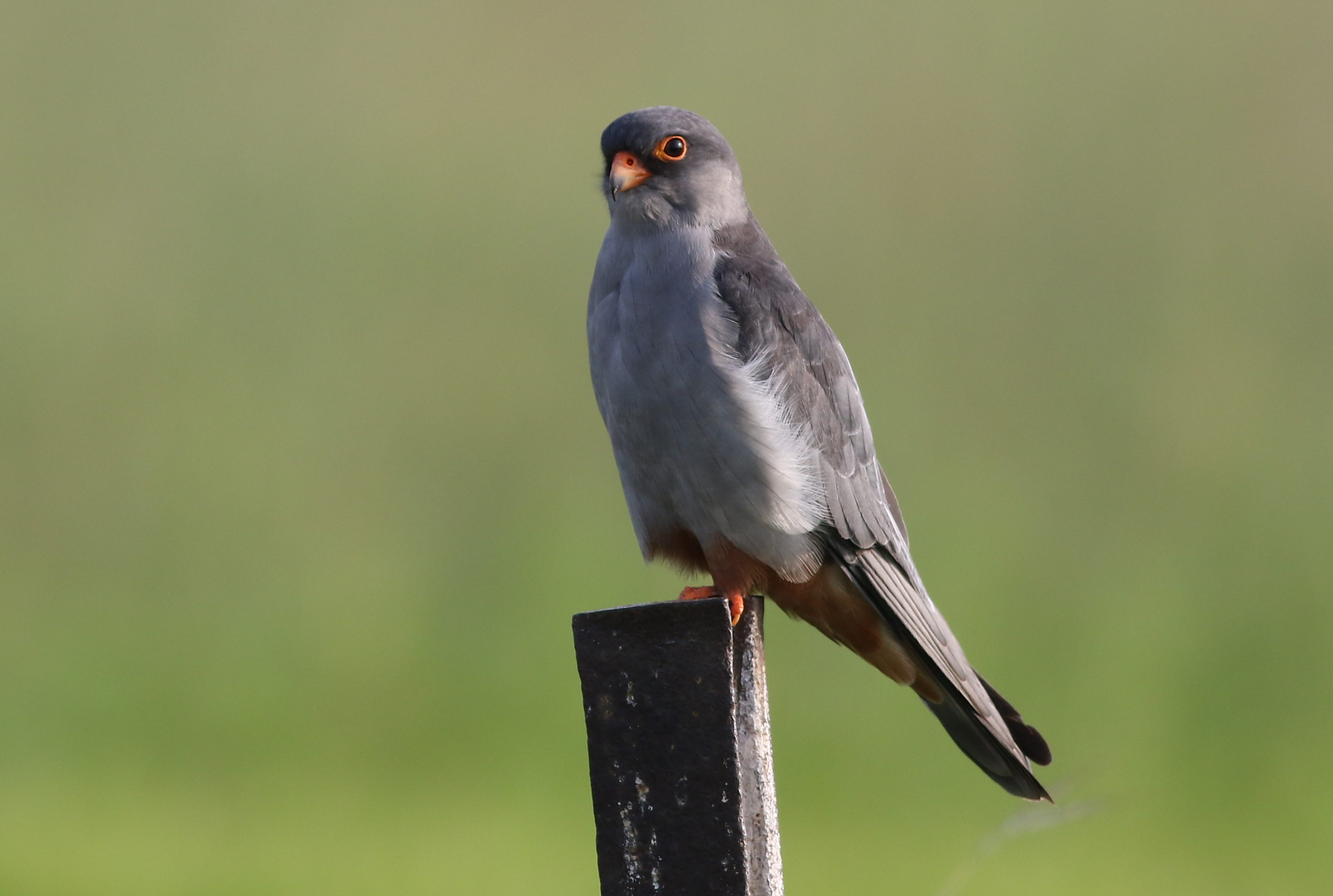 Amur falcon, Falco amurensis, male at Eendracht Road, Suikerbosrand, Gauteng, South Africa